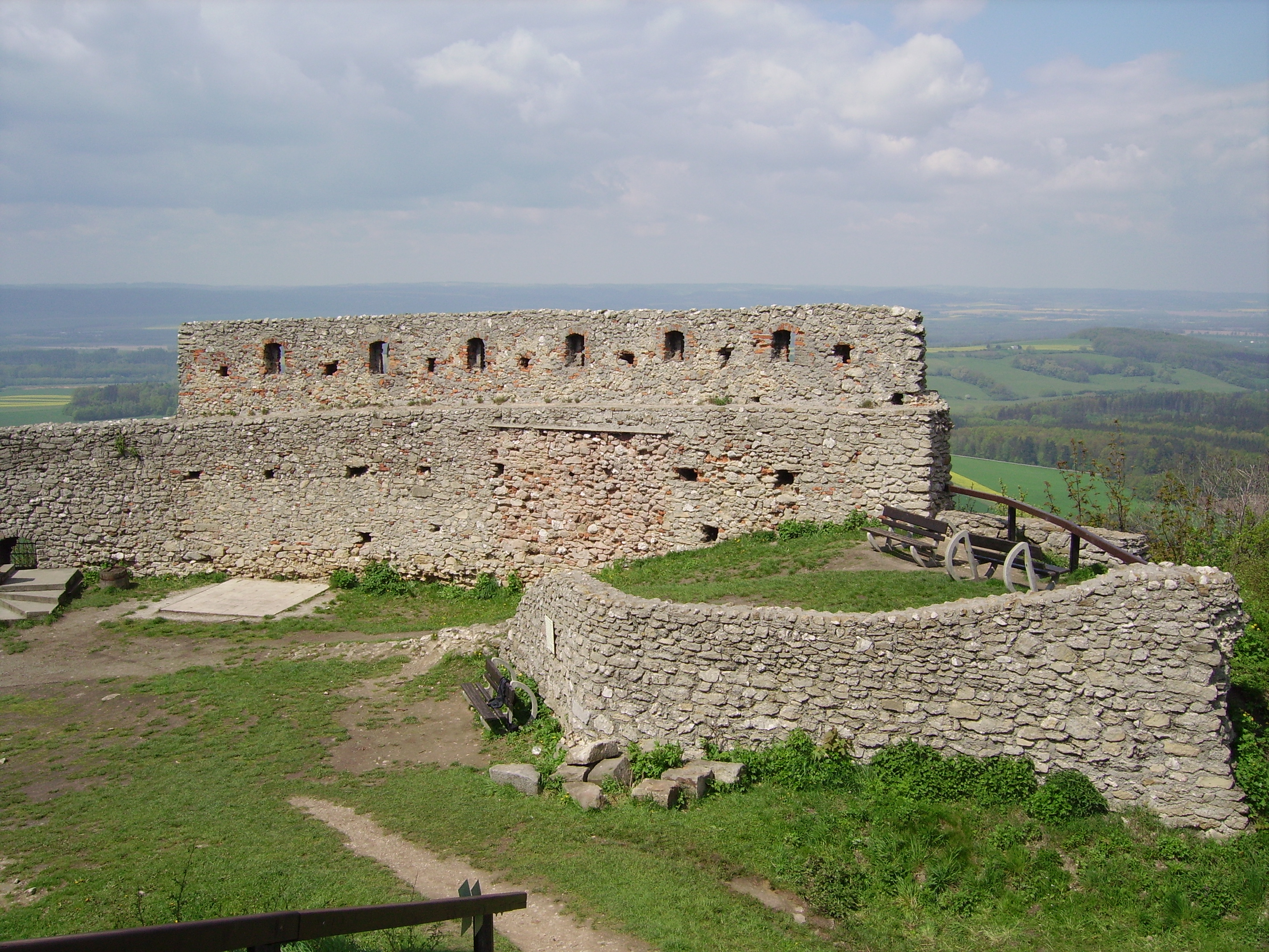 Stary_Jicin_Castle04.JPG